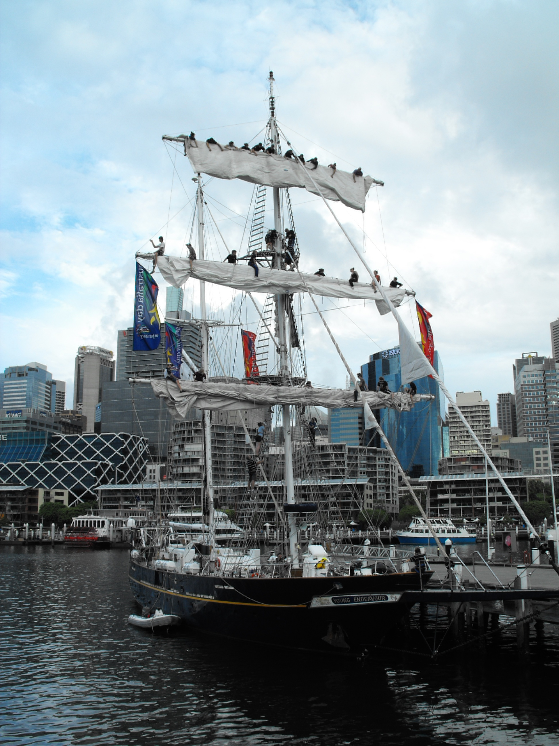 The youth crew aboard STS Young Endeavour manning the mainmast while the vessel is berthed at the Australian National Maritime Museum